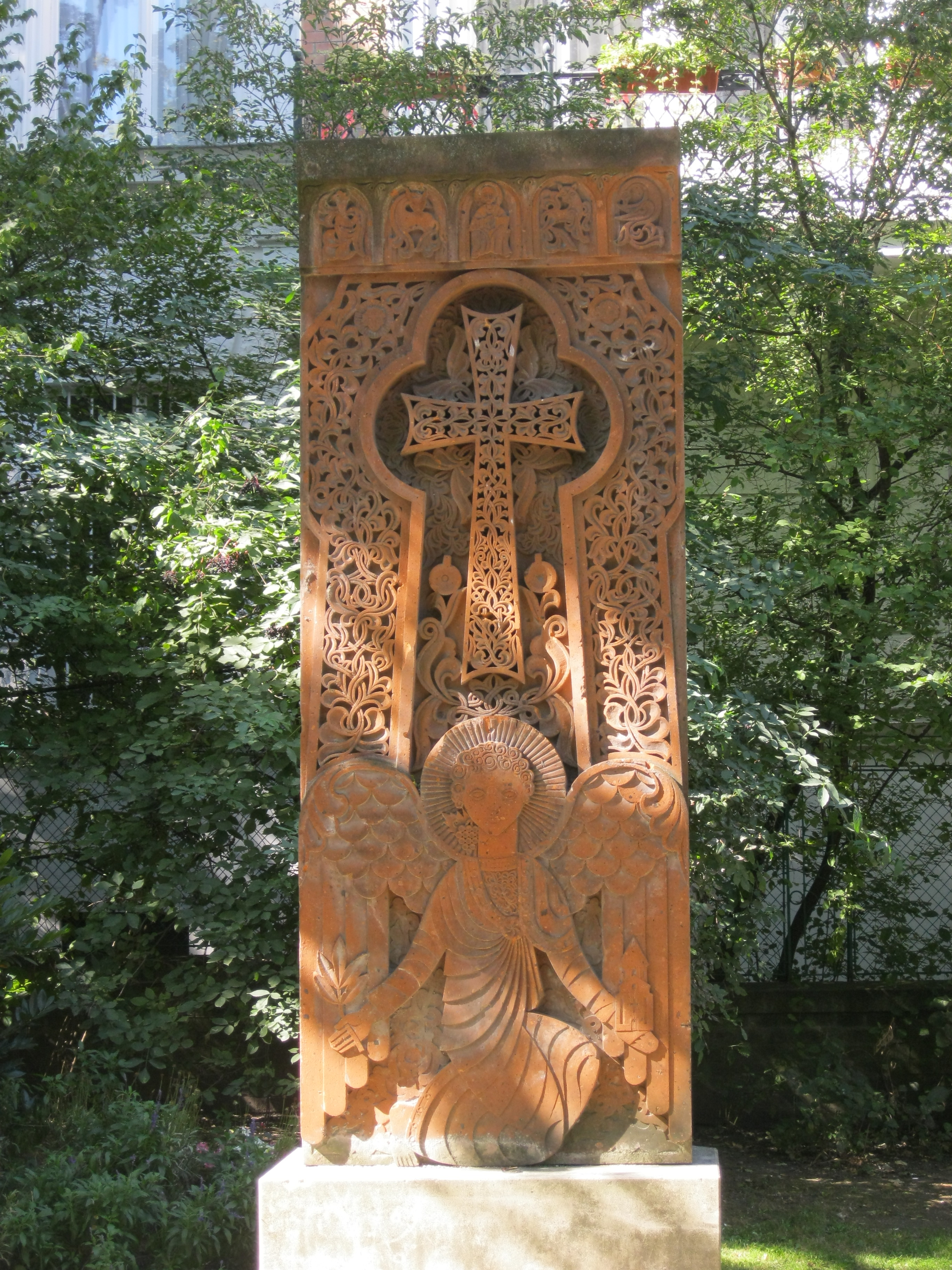 Armenian cross near to Antonskirche. The roman katholic Church named Antonskirche, dedicated to Antonius from Padua, located in Favoriten, Vienna